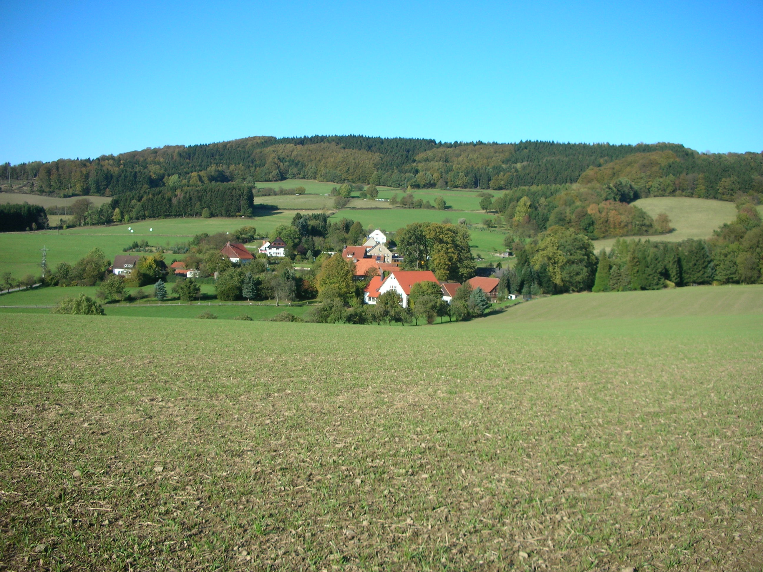 Village Alt-Schwelentrup in the municipality Dörentrup, Germany